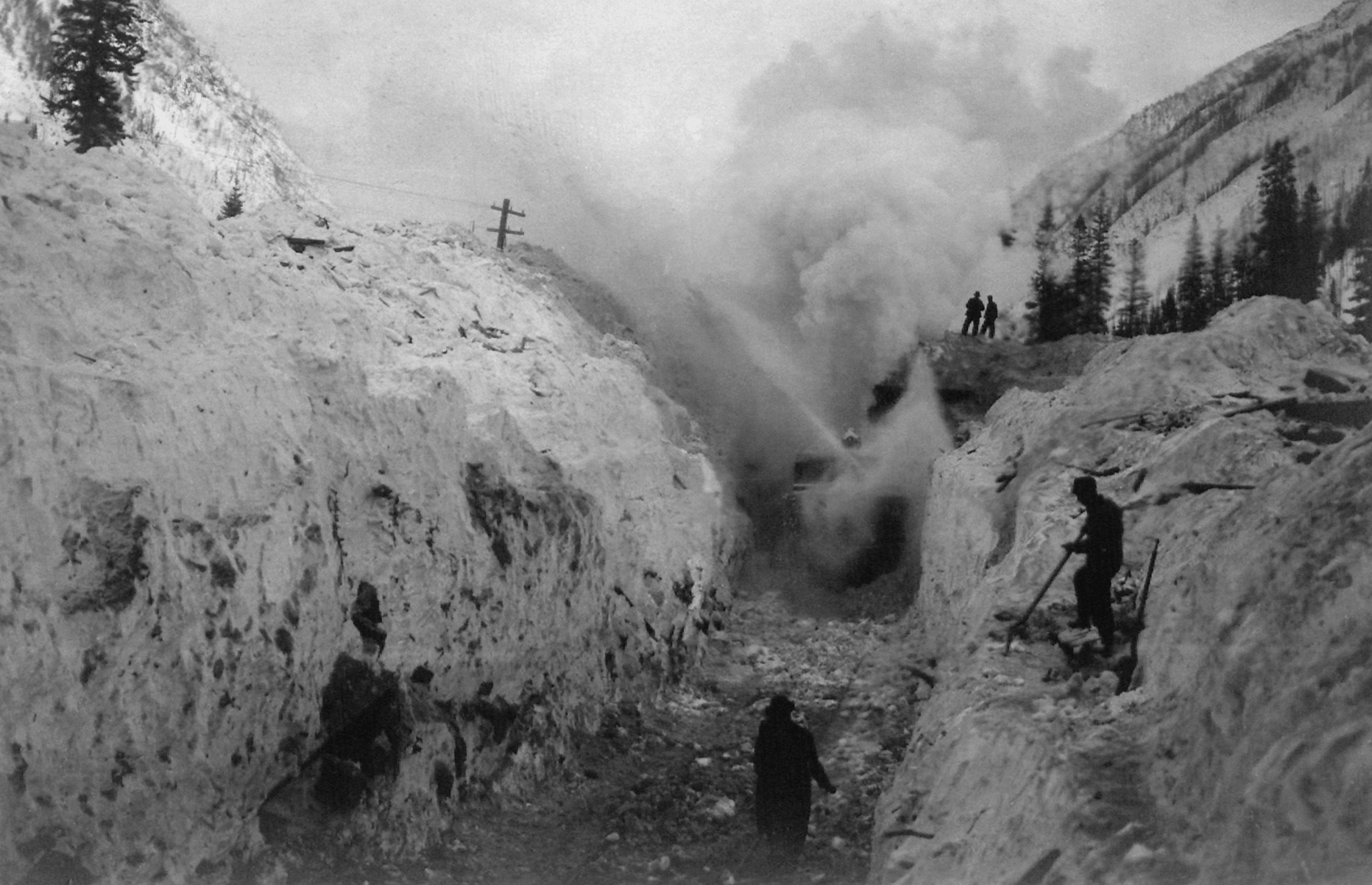 Adjusted version of Rotary snow plow No 6 (HS85-10-22310) original.tif